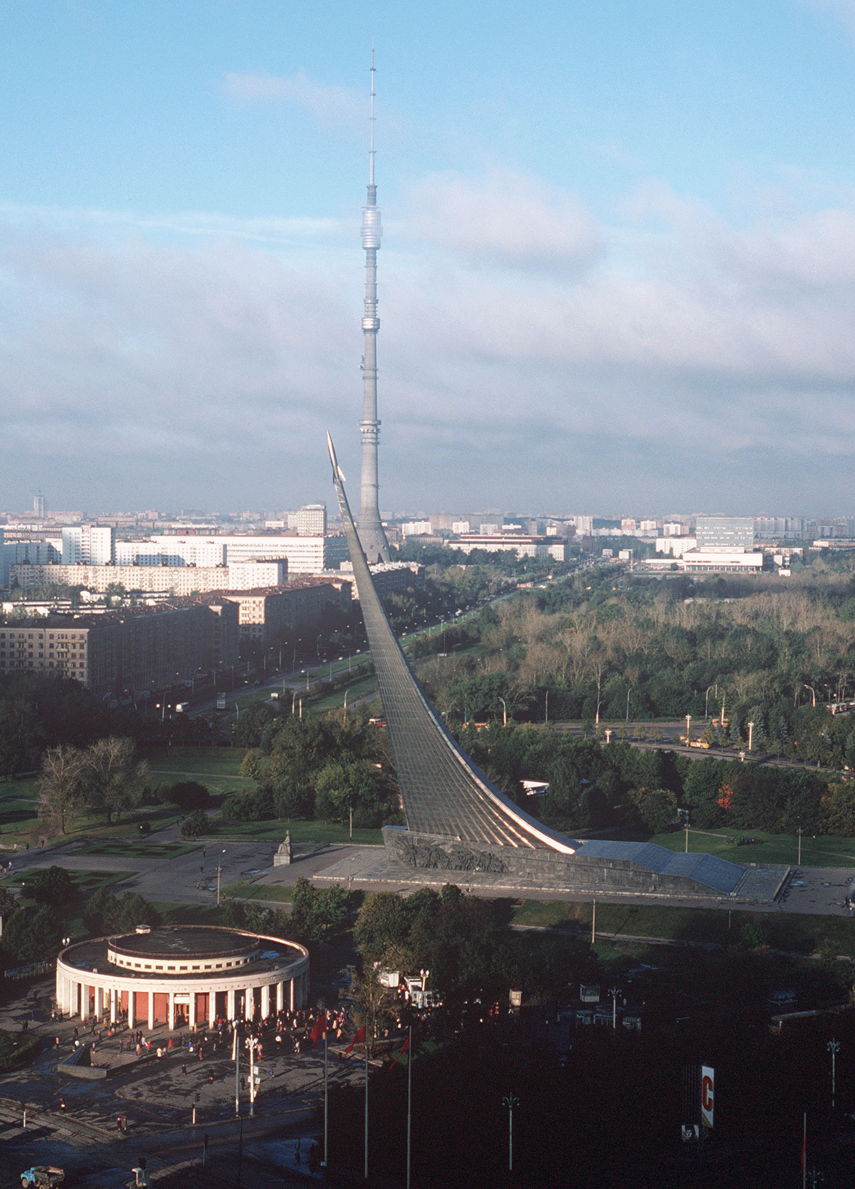 An elevated view of the Monument to the Conquerors of Space devoted to the achievements of the Soviet people in space exploration. Behind the monument the Moscow television tower (tallest reinforced concrete structure in the world) can be seen. The circular building in the foreground VDNKh station of the Moscow subway system. (Released to Public)